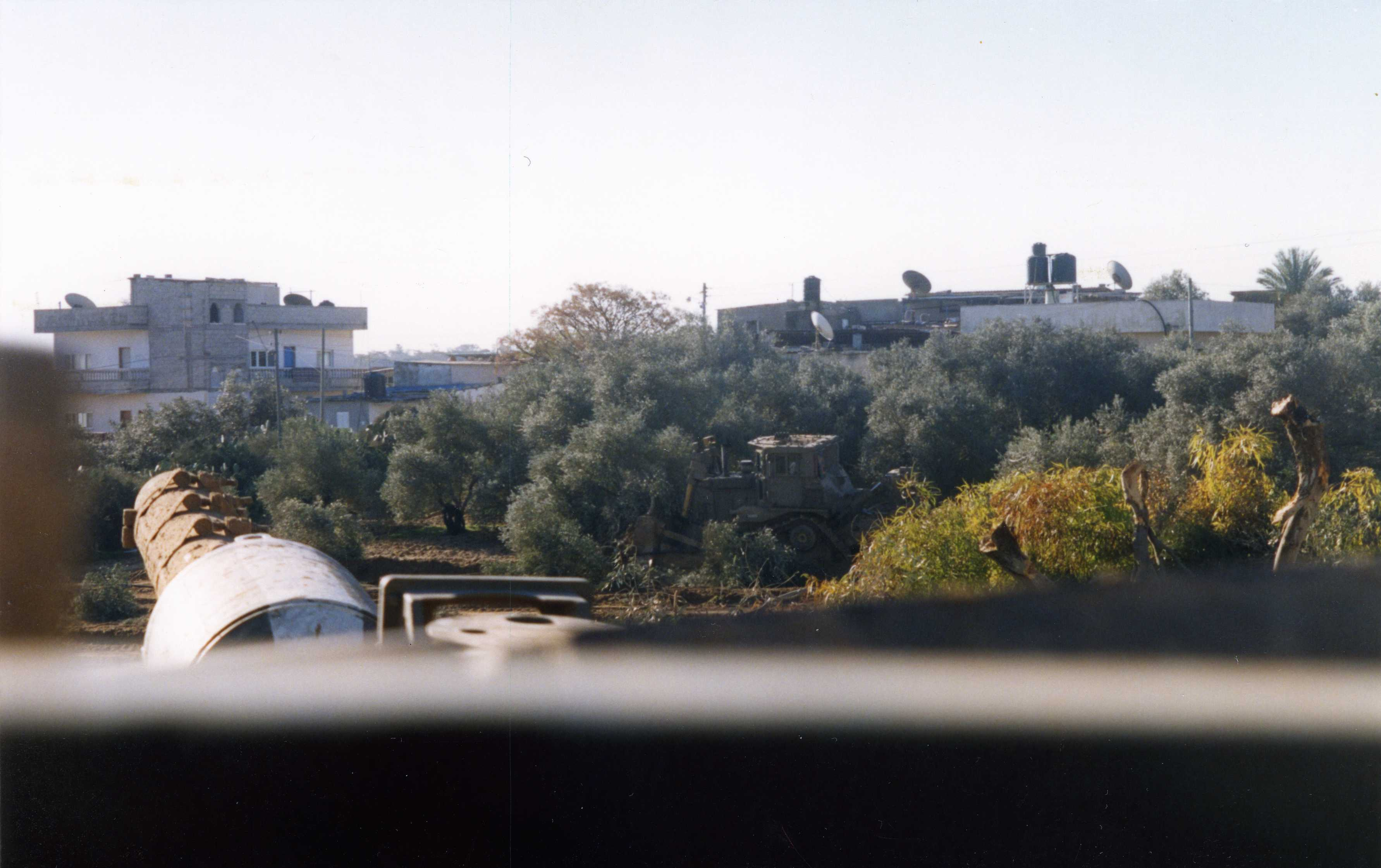 IDF Caterpillar D9 bulldozer working in Al-Bureij refugee camp, central Gaza Strip.